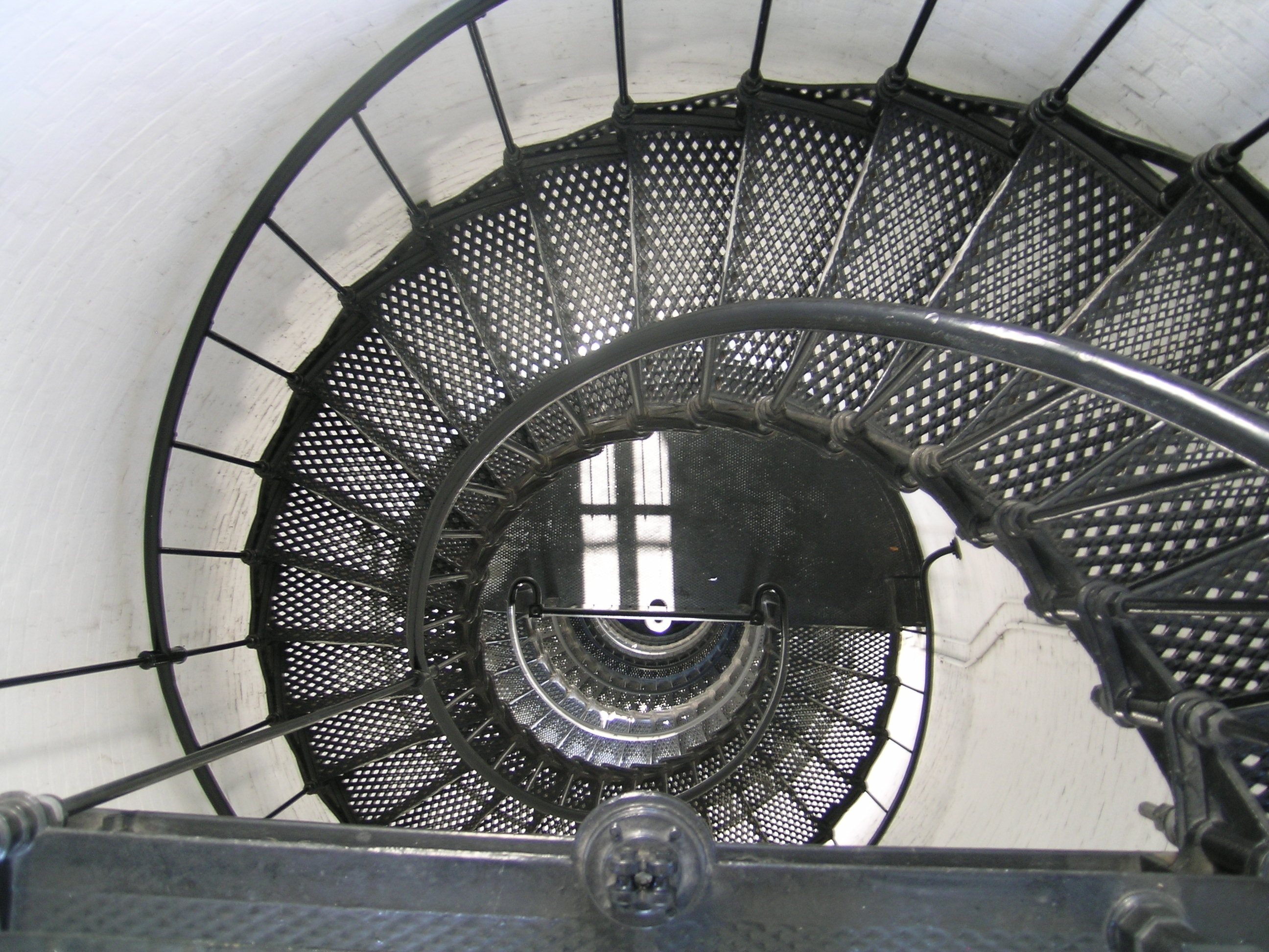 Looking down the spiral staircase of the St. Augustine Light, St. Augustine, Florida, USA